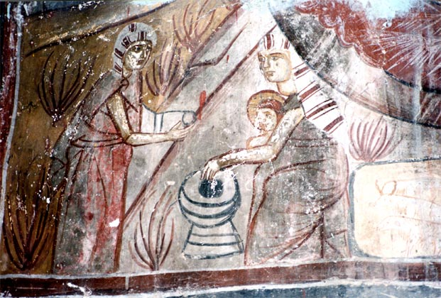 Saint Theodores Church in Servia Fresco